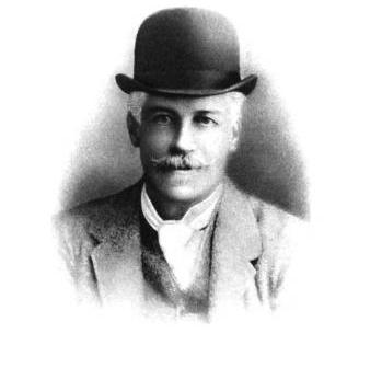 Colonel Theophilus John Levett of Wychnor Park, Staffordshire. Photograph by W.W. Winter, ca.